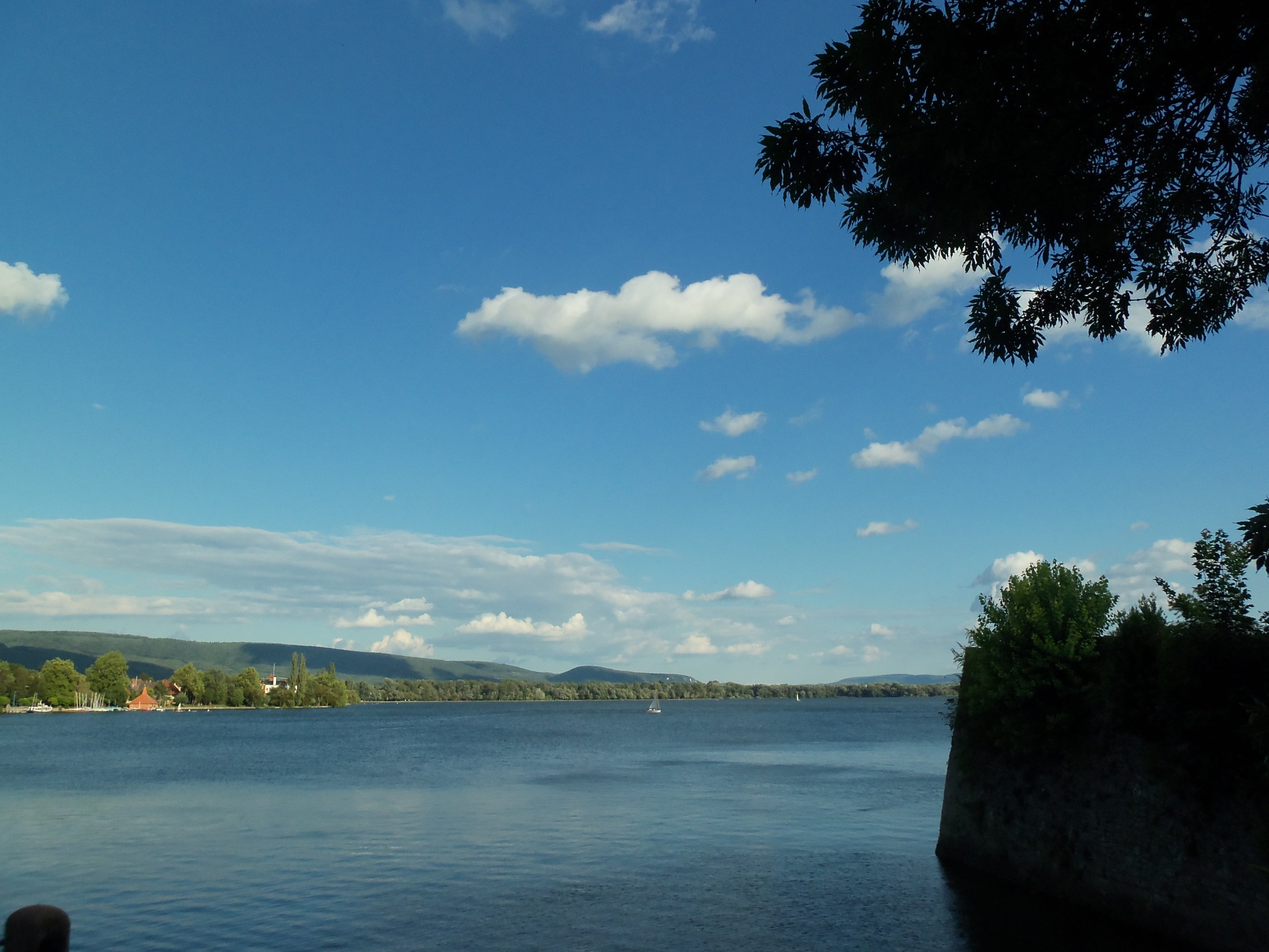 Lake Öreg-tó seen from the castle, in Tata, Hungary